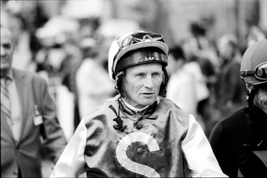 Jockey Kevin Woodburn.